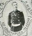 Portrait of SMAC member Petar Kanizirov from Mehomia, today Razlog